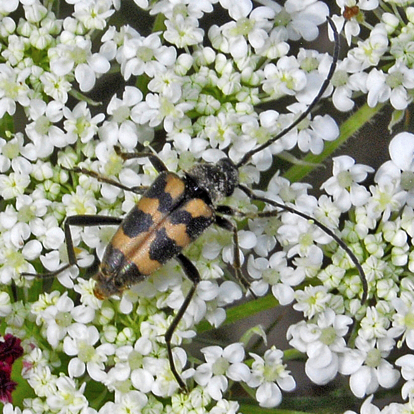 Pachytodes cerambyciformis. Val di Rhemes, Aosta, Italy